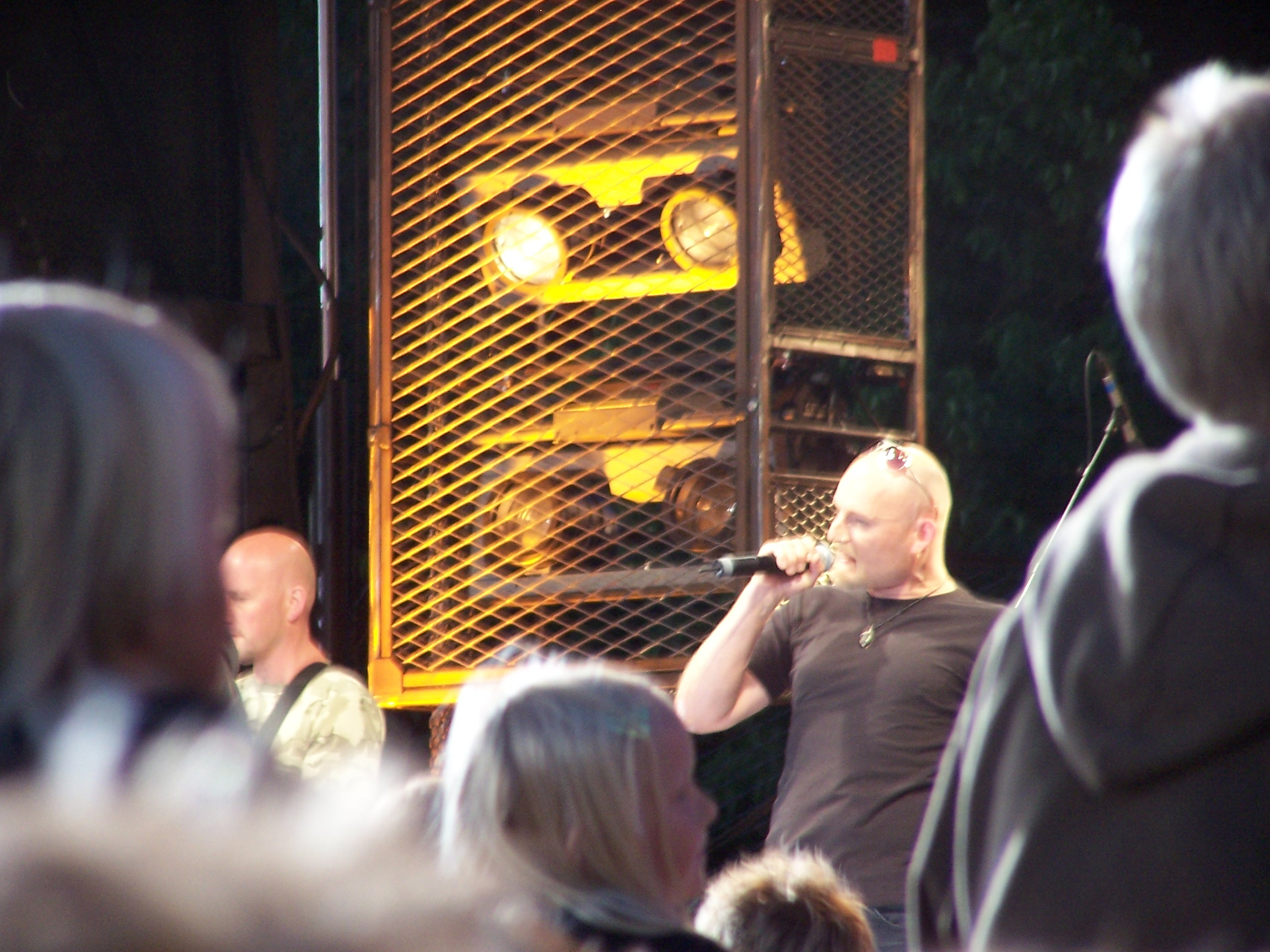 Nordman on stage in Karlskrona, Sweden during "TV4 Stadskampen"